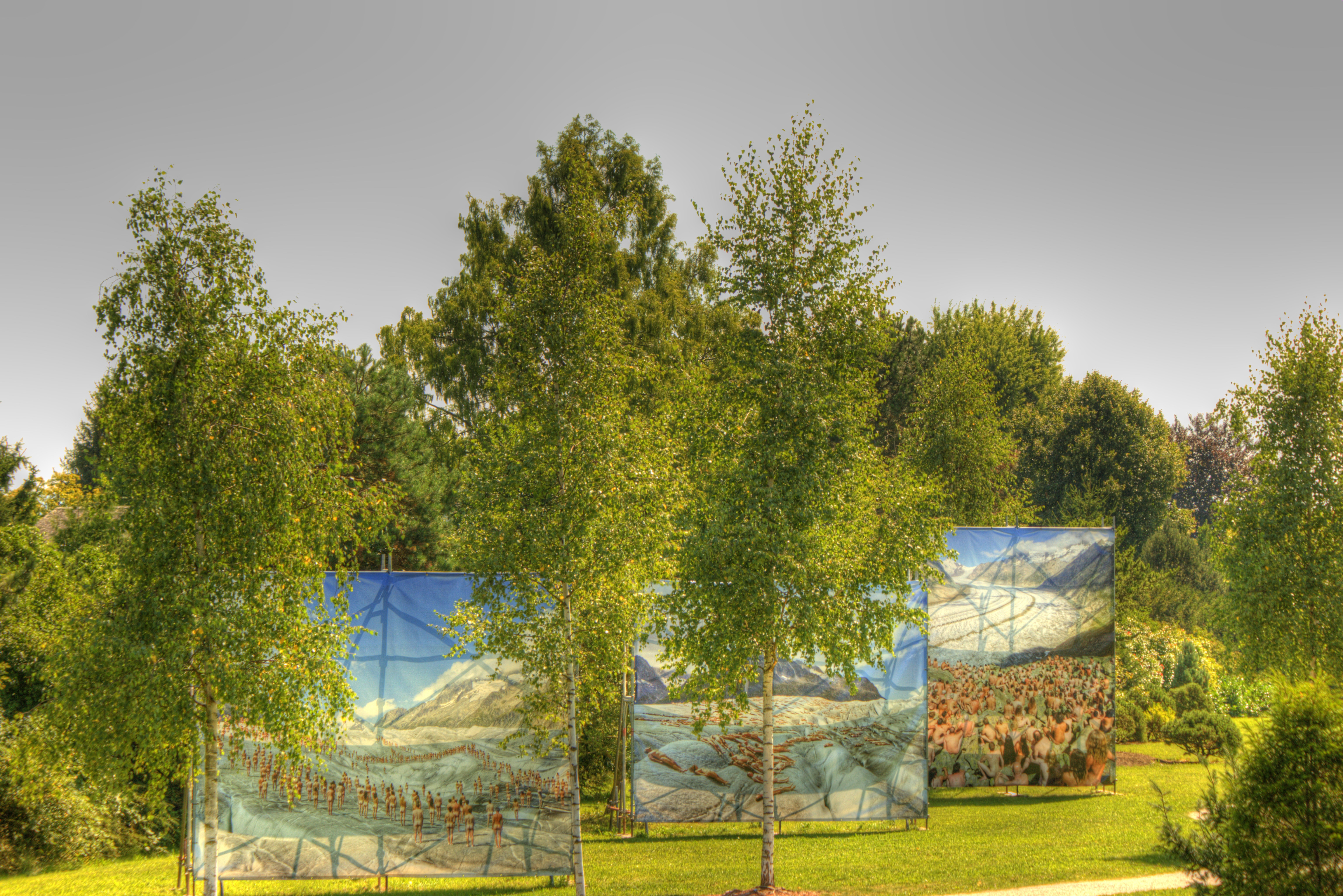 spencer tunick hdr